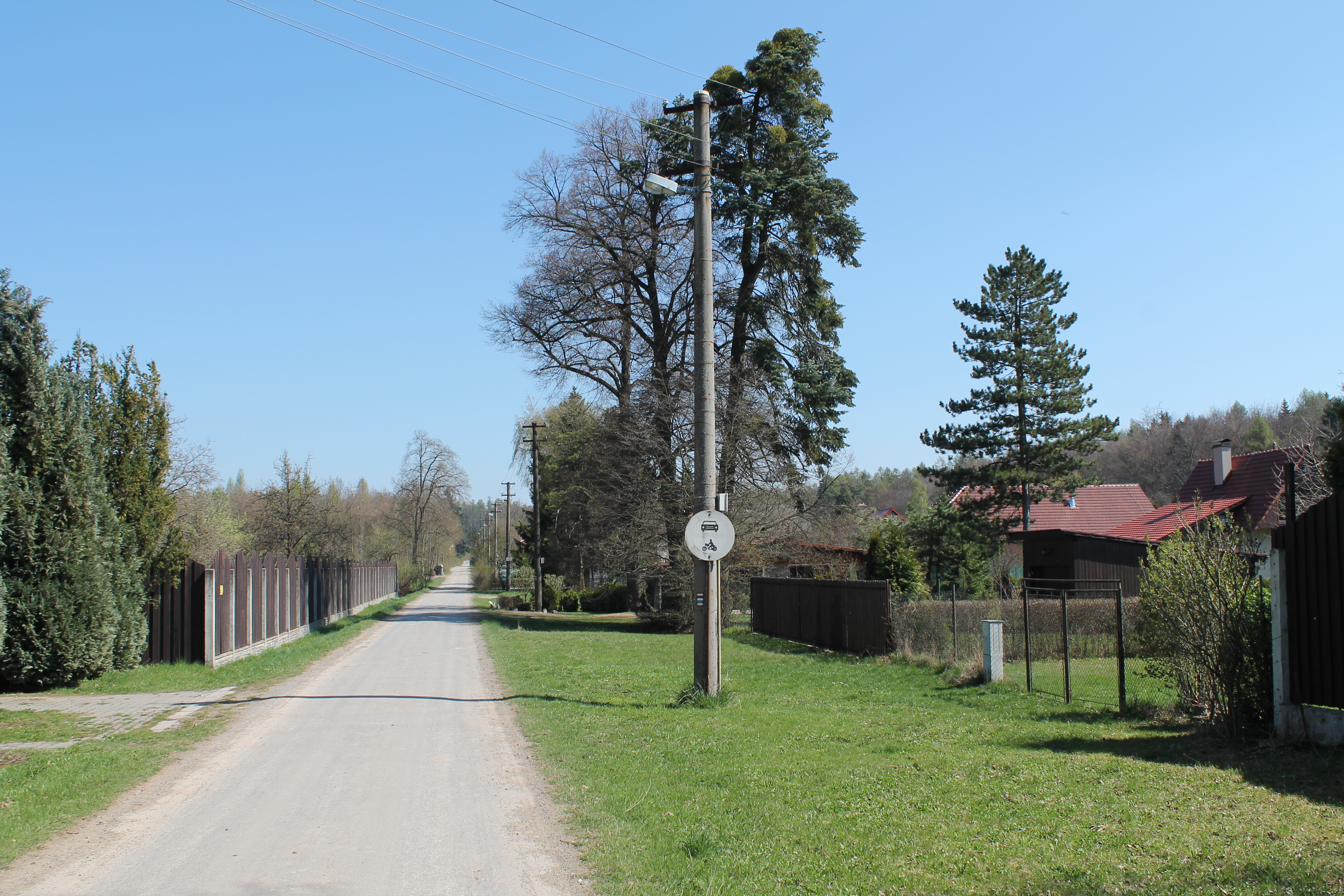 Lhotky, Hostěnice, Brno-Country District, Czech Republic